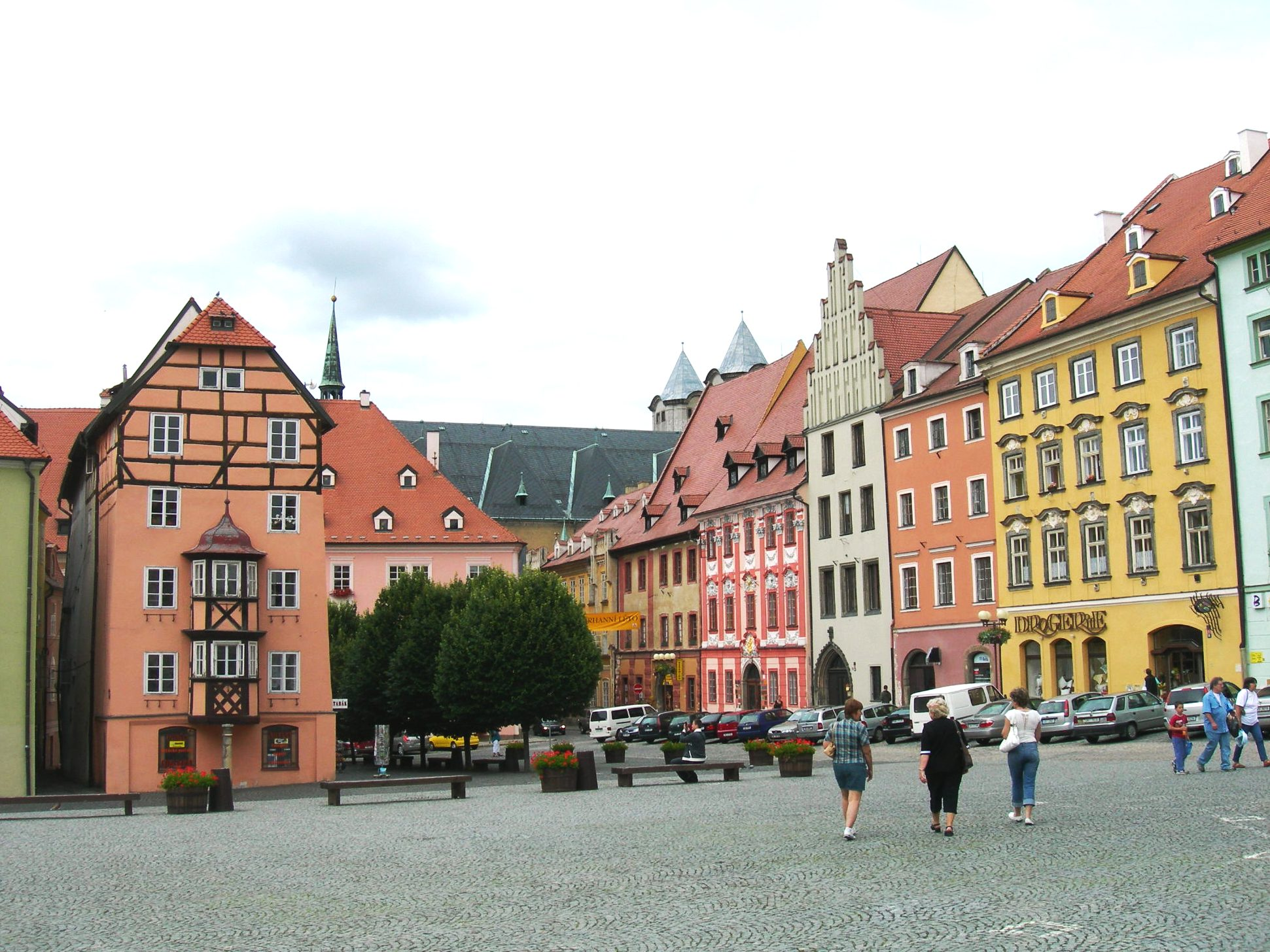 The market square of Cheb/Eger in Western Bohemia.